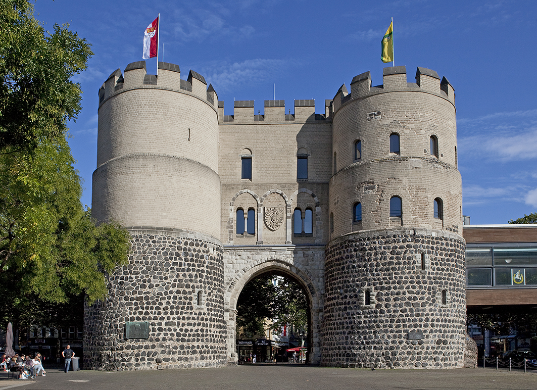 Hahnentorburg, cologne's western citygate